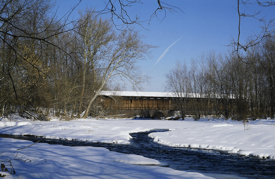 View is of South side of bridge taken approximately JAN-FEB 1983.